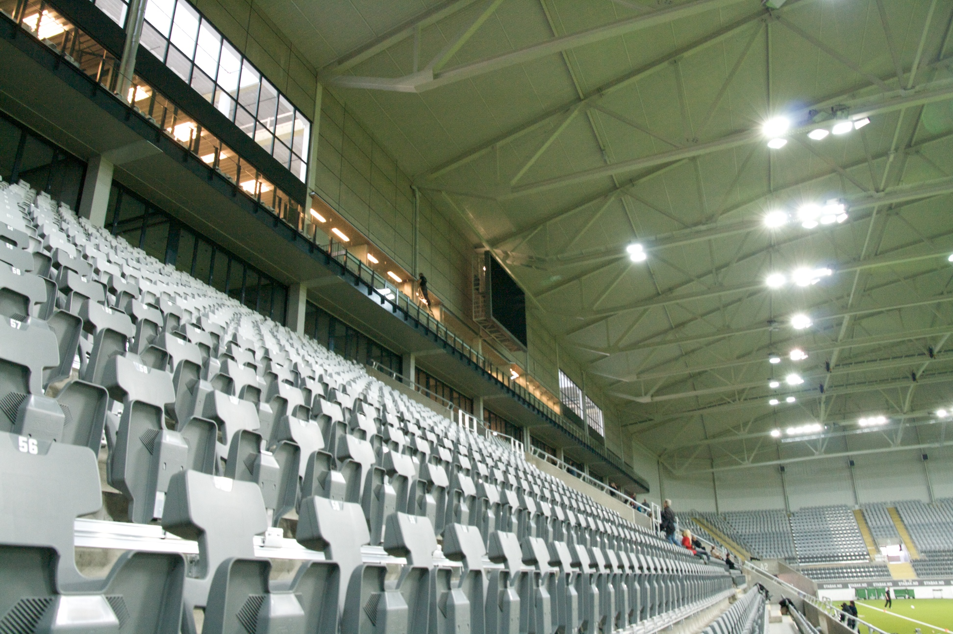 The canal digital stand at Telenor arena